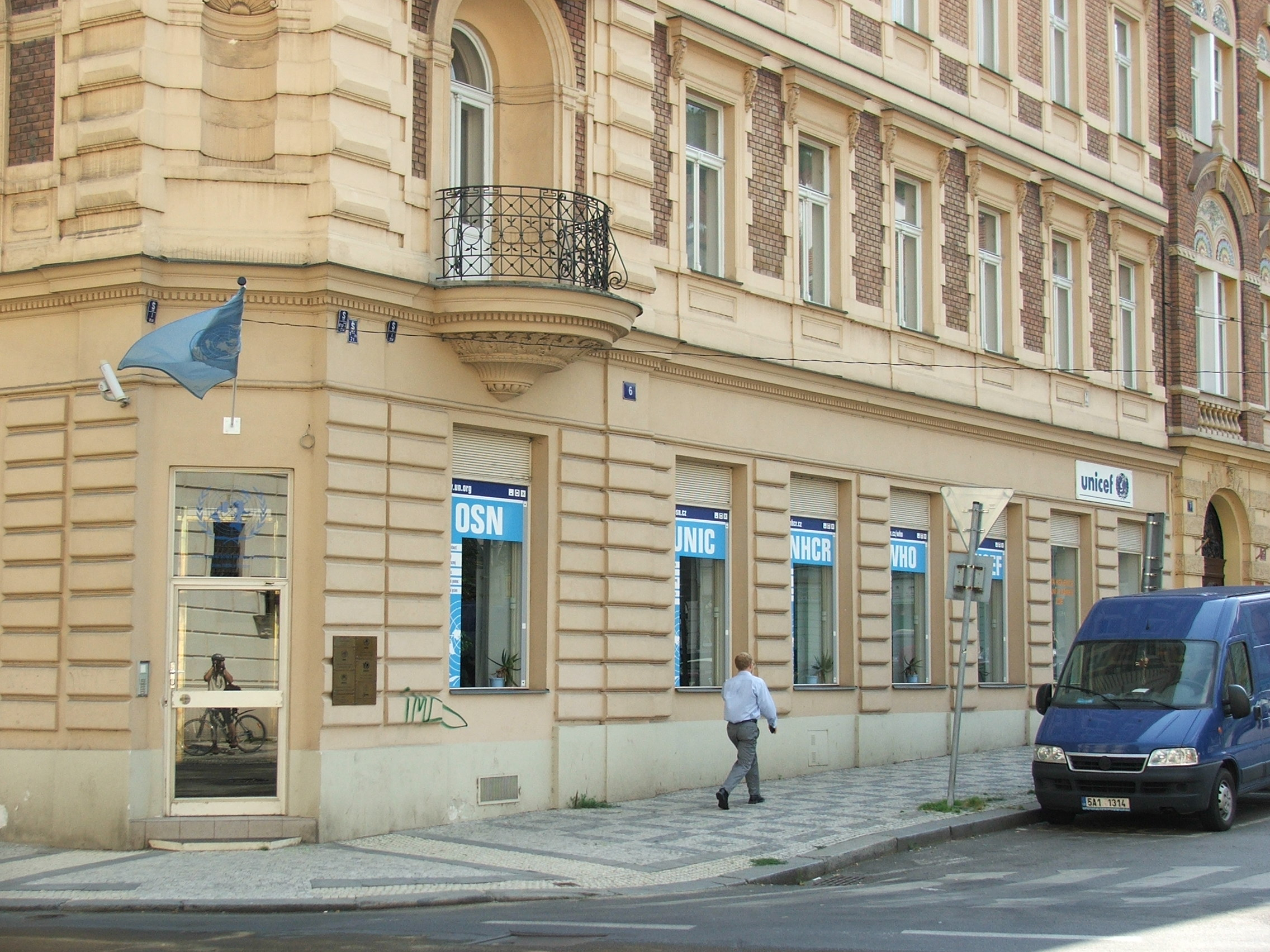 United Nations Information Centre Prague located in Prague - Smíchov, Czechia.